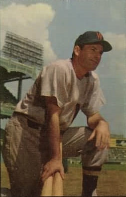 Washington Senators first baseman Mickey Vernon.